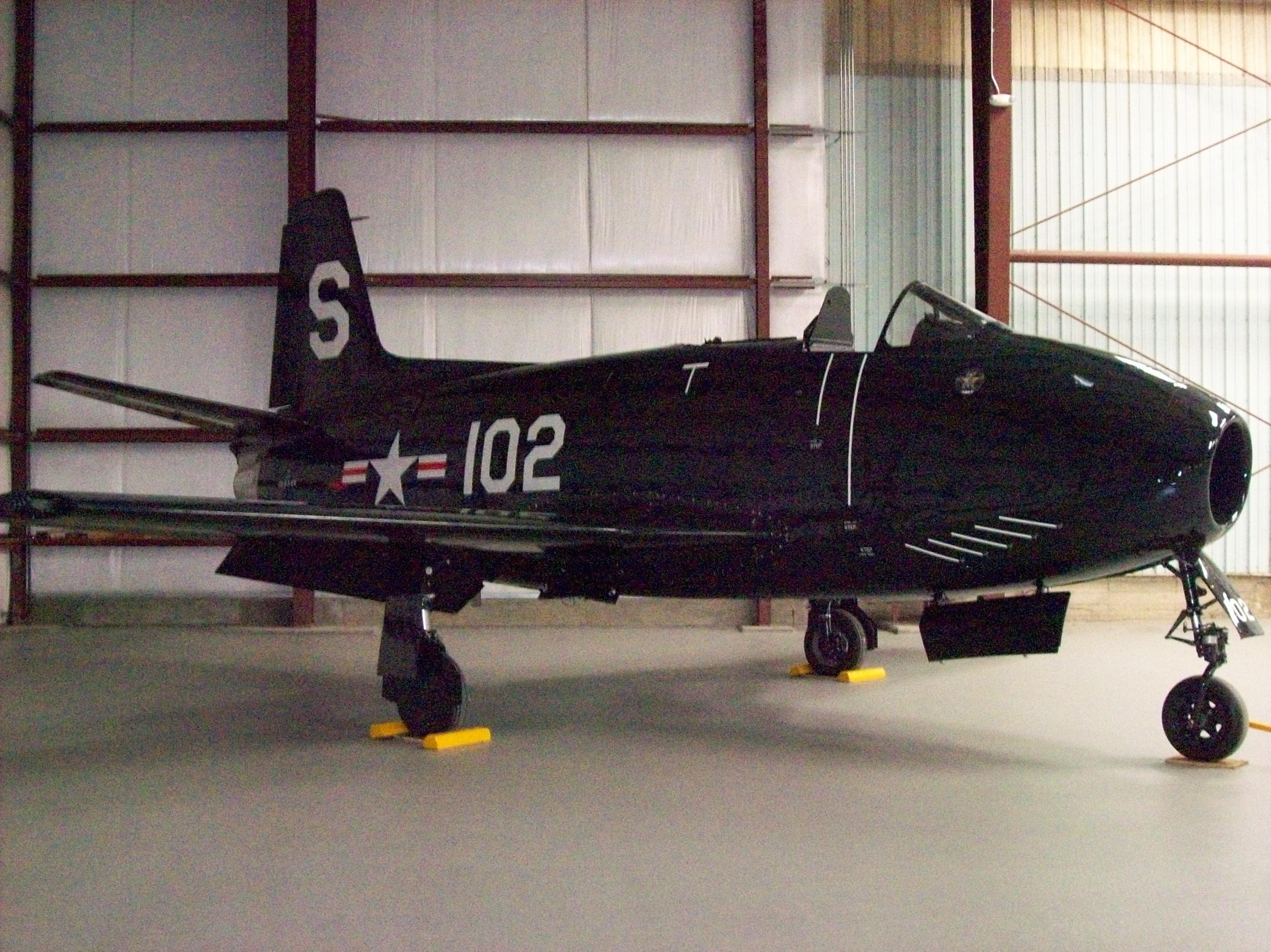 Photograph of the FJ-1 Fury at Yanks Air Museum. Aircraft is nearly complete: Still needs canopy to be finished and paint touch up.